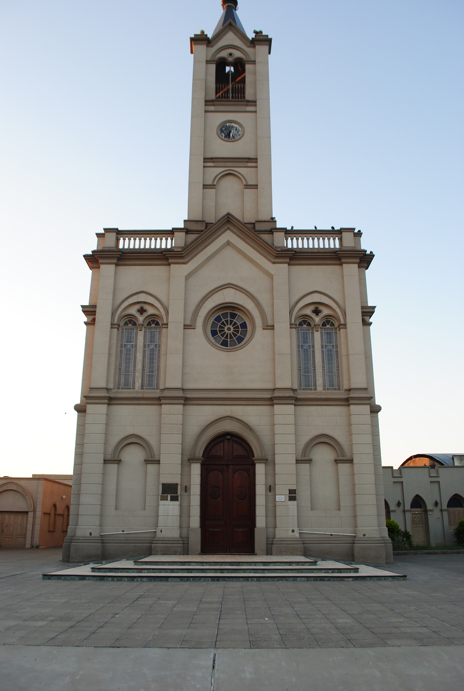 "Nuestra Señora de las Mercedes" Church at Zavalla, Santa Fe province, Argentina